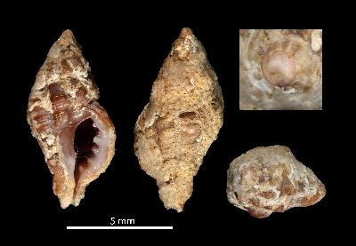 Muricopsis matildeae Rolán & Fernandes, 1991; family Muricidae; Sao Tome